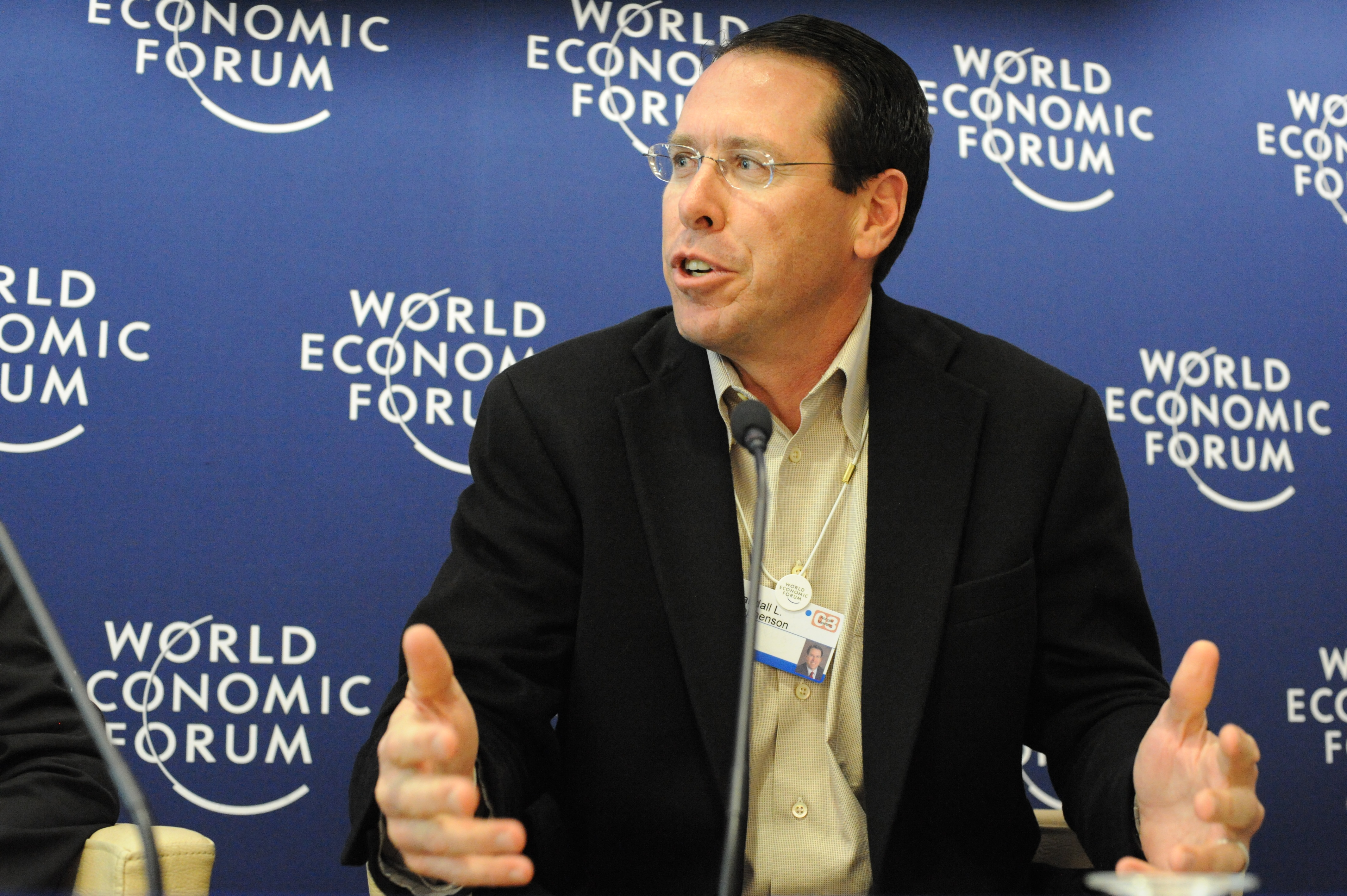 Randall L. Stephenson at the 2008 World Economic Forum.Randall Stephenson, CEO of AT&T